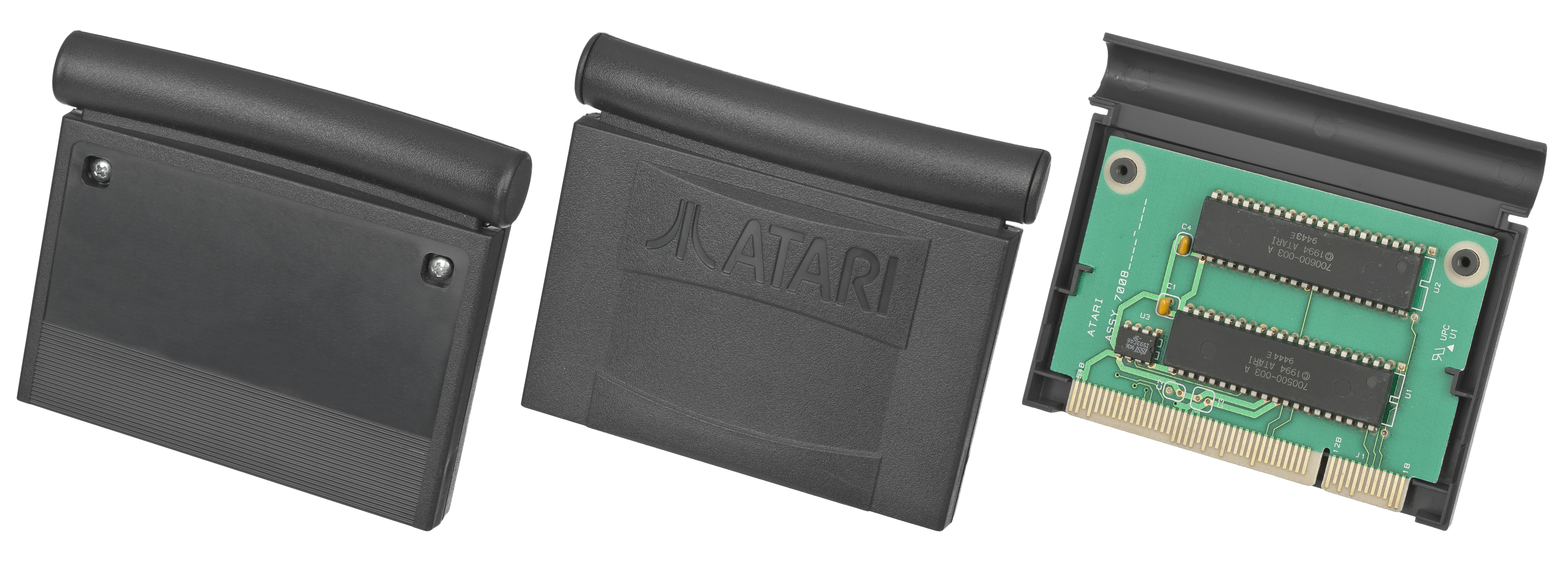 A game cartridge for the Atari Jaguar, a home gaming console from 1993. This is the game Cybermorph with the sticker removed. The first picture is the front of the cart, the second is the back, and the third is the inside of the cart, showing the PCB and chips.